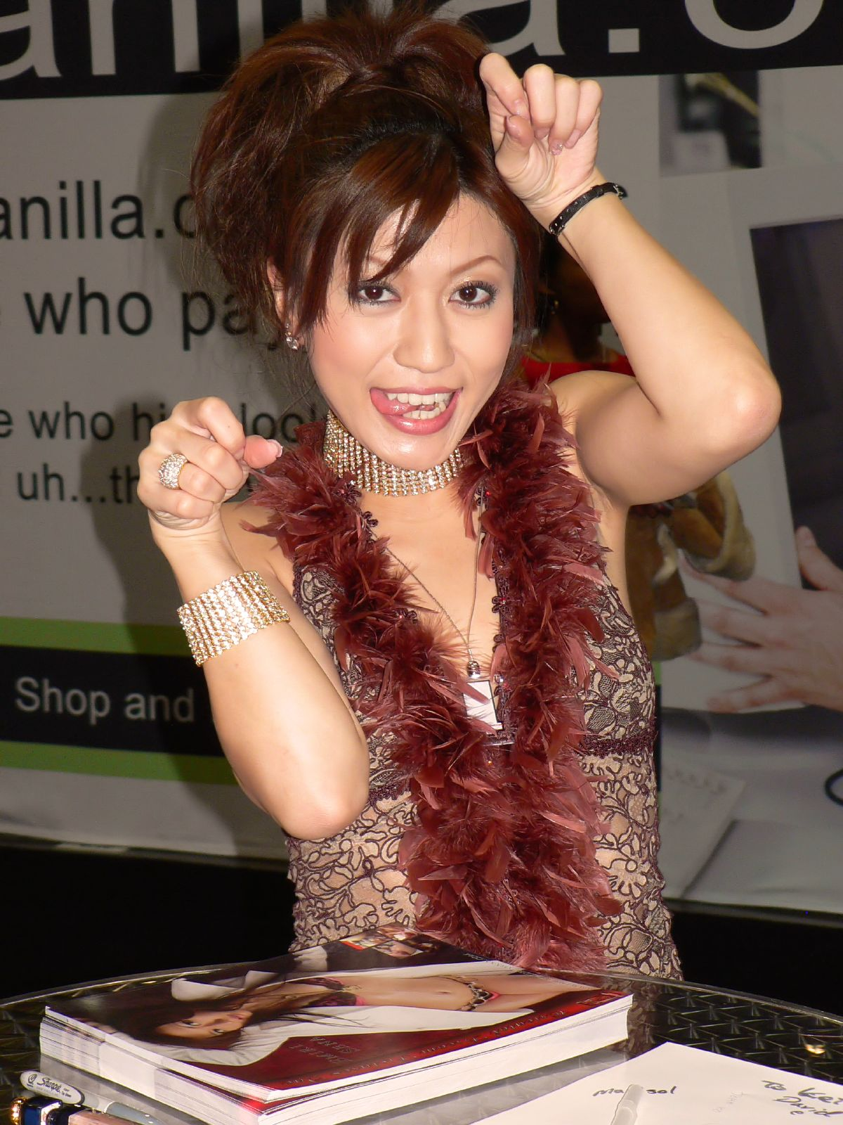 Emiri Sena at the 2007 Las Vegas Adult Entertainment Expo.